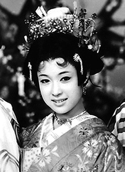 Cropped studio still for 1959 Japanese movie The Badger Palace: Happy New Year (初春狸御殿 Hatsu Haru, Tanuki-goten), featuring Ayako Wakao (若尾文子).